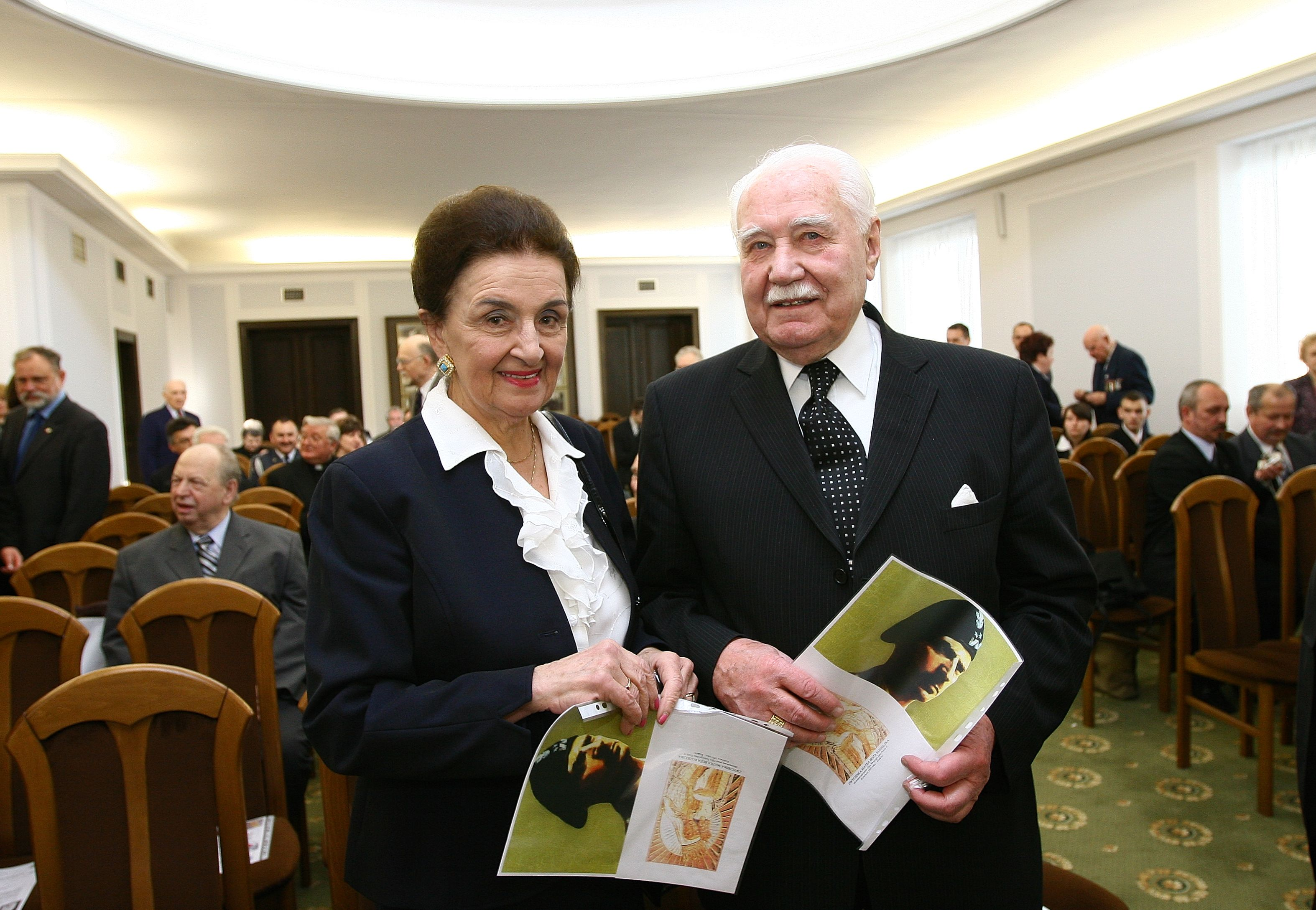 Ryszard Kaczorowski and Karolina Kaczorowska in the Polish Senate. Ceremony marking the end of Władysław Anders Year